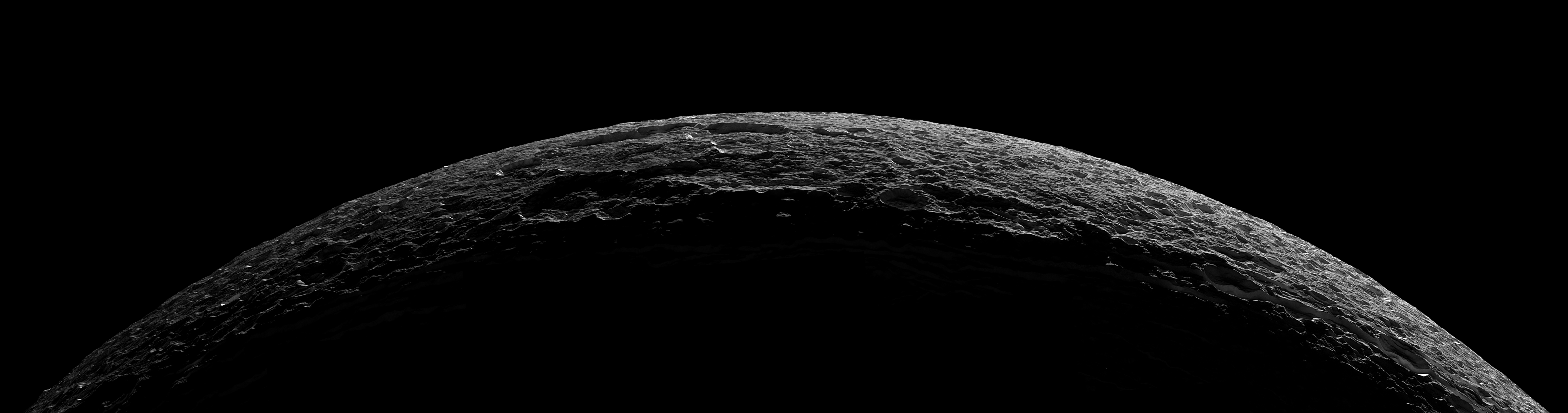 As it departed its encounter with Saturn's moon Dione, Cassini sailed above an unreal landscape blasted by impacts. The rising Sun throws craters into sharp contrast and reveals steep crater walls. At the far right, a medium-sized crater is bisected by a fracture, revealing a cross section of the impact site. The seven clear-filter images in this mosaic were taken with the Cassini spacecraft narrow-angle camera on Oct. 11, 2005, at distances ranging from of 21,650 to 25,580 kilometers (13,450 to 15,890 miles) from Dione and at a Sun-Dione-spacecraft, or phase, angle of 154 degrees. Resolution in the original images ranges from 126 to 154 meters (413 to 505 feet) per pixel. The images have been re-sized to have an image scale of about 100 meters (330 feet) per pixel. North on Dione is 140 degrees to the left. The Cassini-Huygens mission is a cooperative project of NASA, the European Space Agency and the Italian Space Agency. The Jet Propulsion Laboratory, a division of the California Institute of Technology in Pasadena, manages the mission for NASA's Science Mission Directorate, Washington, D.C. The Cassini orbiter and its two onboard cameras were designed, developed and assembled at JPL. The imaging operations center is based at the Space Science Institute in Boulder, Colo. For more information about the Cassini-Huygens mission visit The Cassini imaging team homepage is at